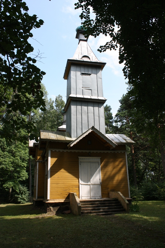 Orthodox church of St. Nicholas in Gegabrasta, Pasvalys district, Lithuania.